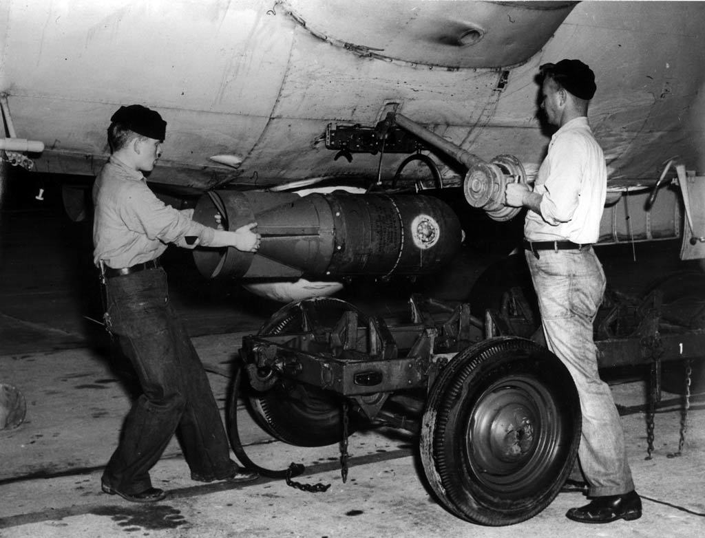 US Navy sailors attach Mk 47 aerial depth charges to the underside of a K-class blimp control car at NAS Weeksville, North Carolina, United States, 1944. ww2dbase